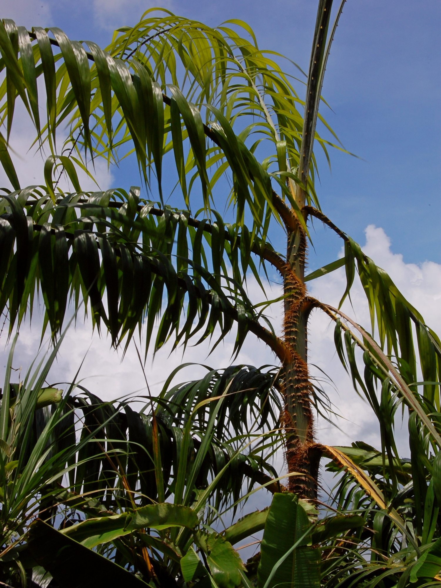 Plectocomia elongata, habits. From Sukabumi, West Java, Indonesia.